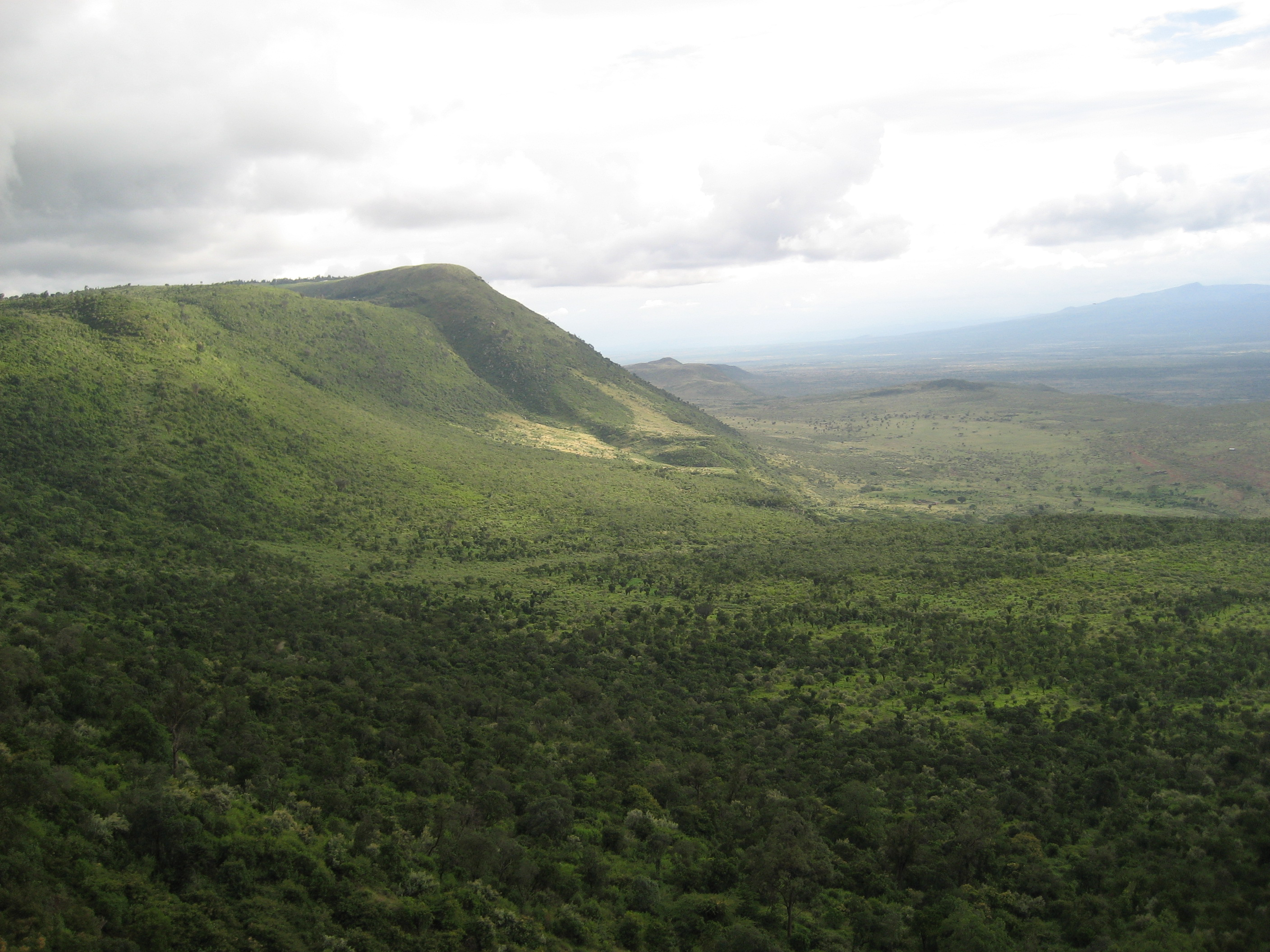 The Great Rift Valley, Location: Uganda.